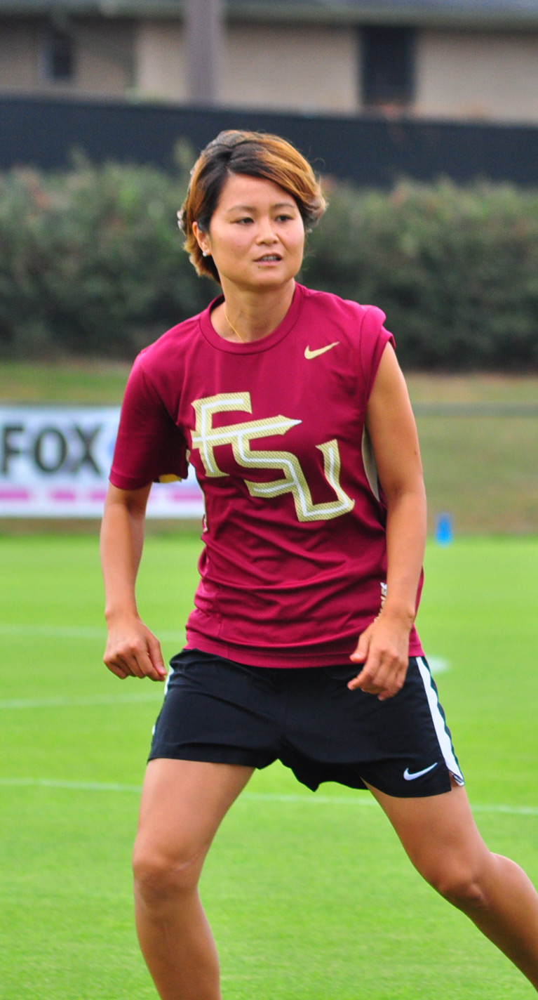 Emma Koivisto warms up with former pro player Mami Yamaguchi.